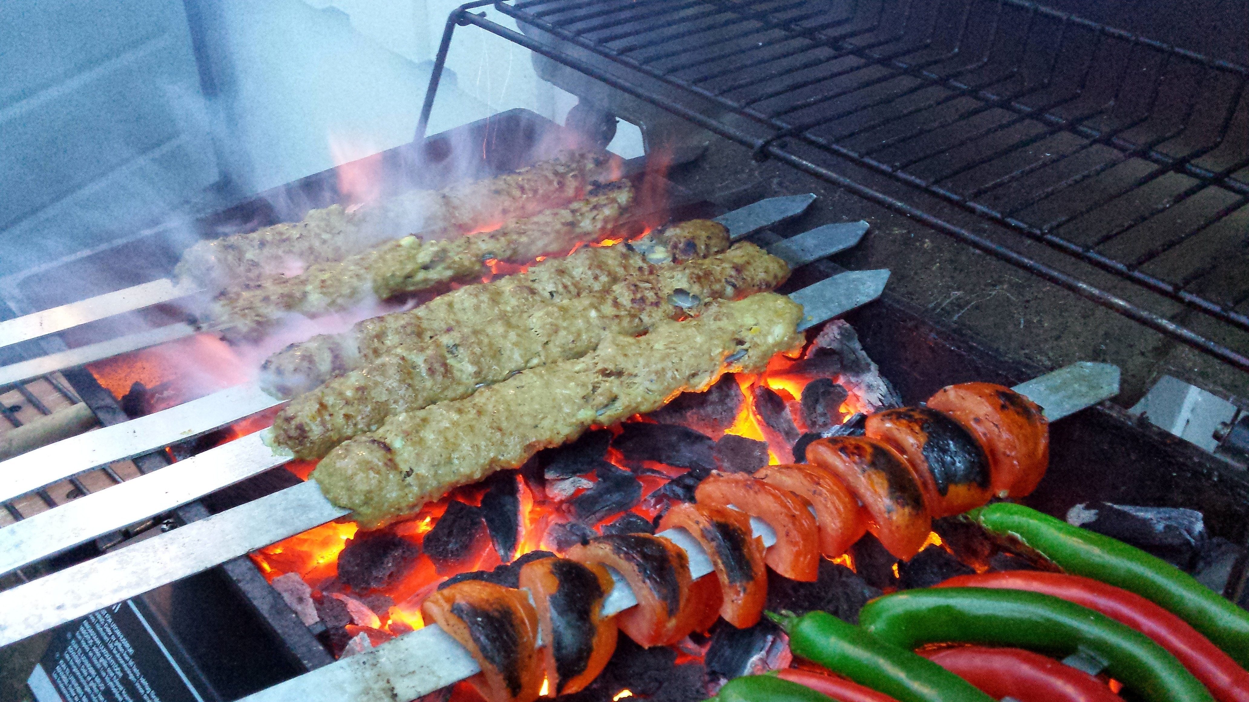 Making the popular Persian cuisine Kabab Koobideh / Koubideh